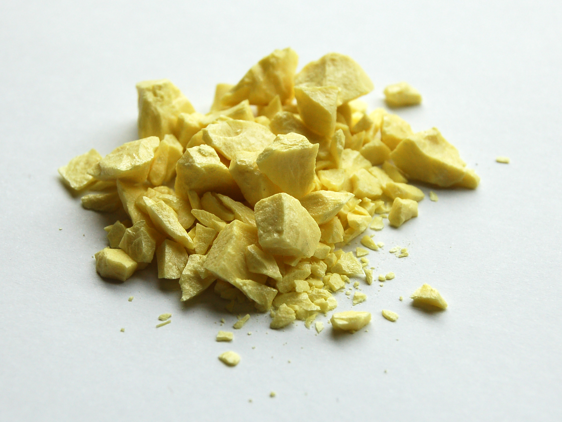 A sample of sulfur